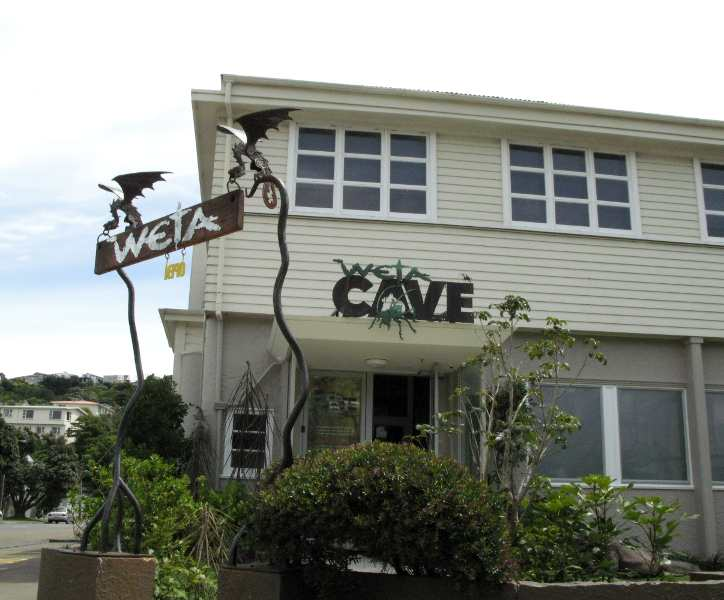 2008-11-09, Wellington The Weta Shop sells books and collectable items just next to the Weta Digital studio.